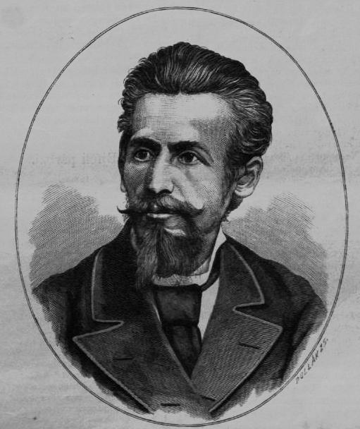 Portrait of Ferenc Csepreghy